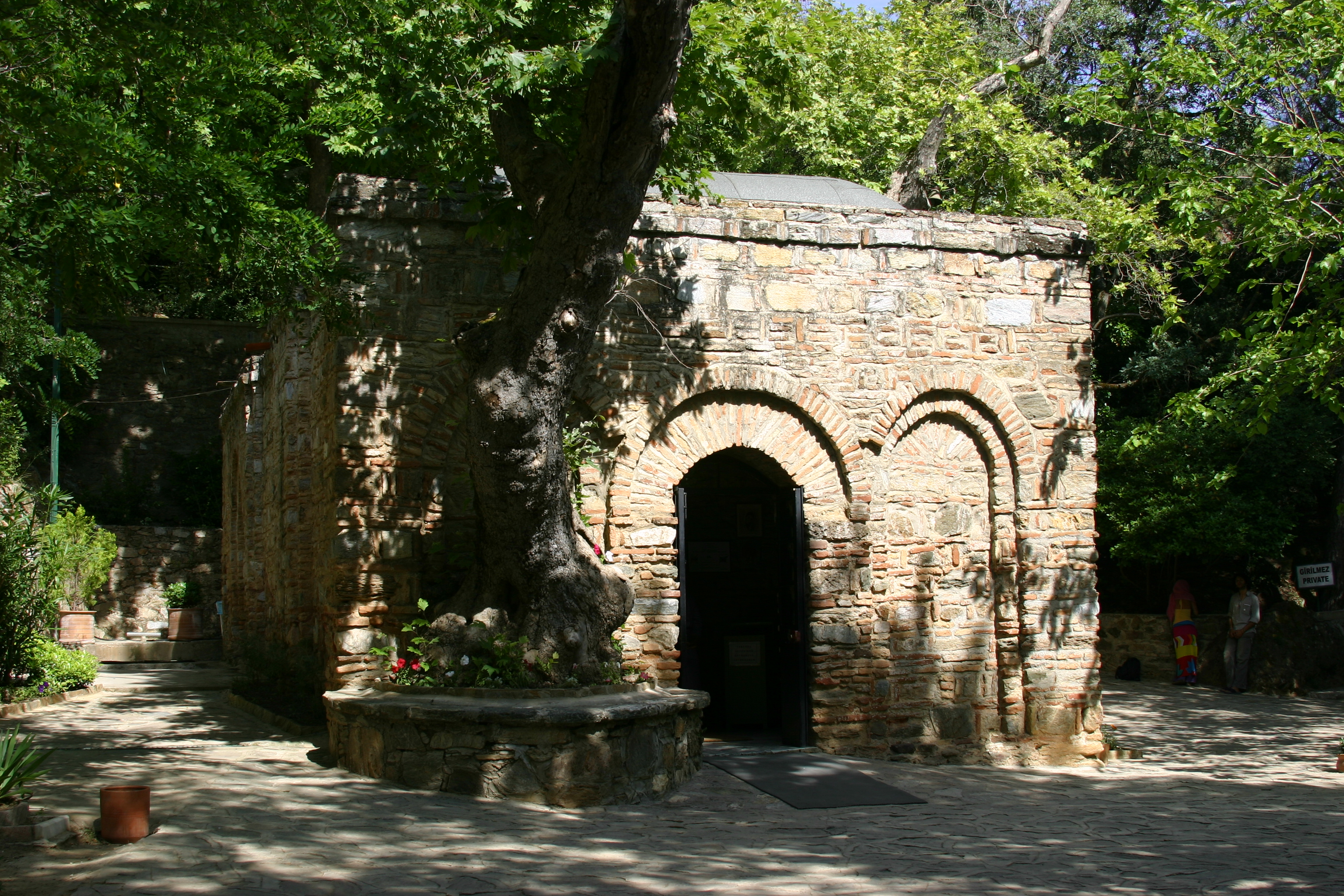 Exterior of "The House of the Virgin Mary" near Ephesus, Selçuk in Turkey. Photographer: Martin H. Fryc. A note: the photo shows not the house of Virgin Mary, but the chapel built many years later on beside it. What's left after the house is only a hole in the ground.